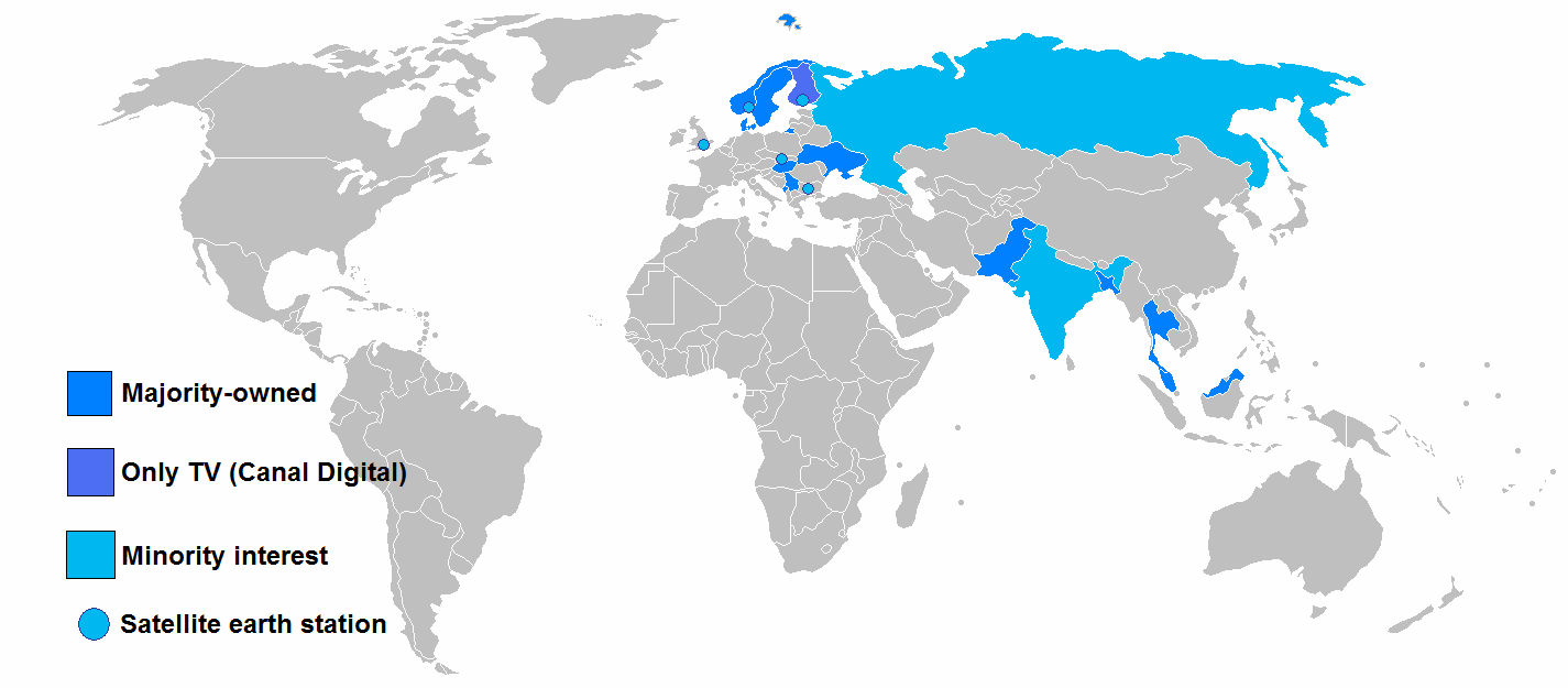 Map of Telenor worldwide operations and business, august 2009.